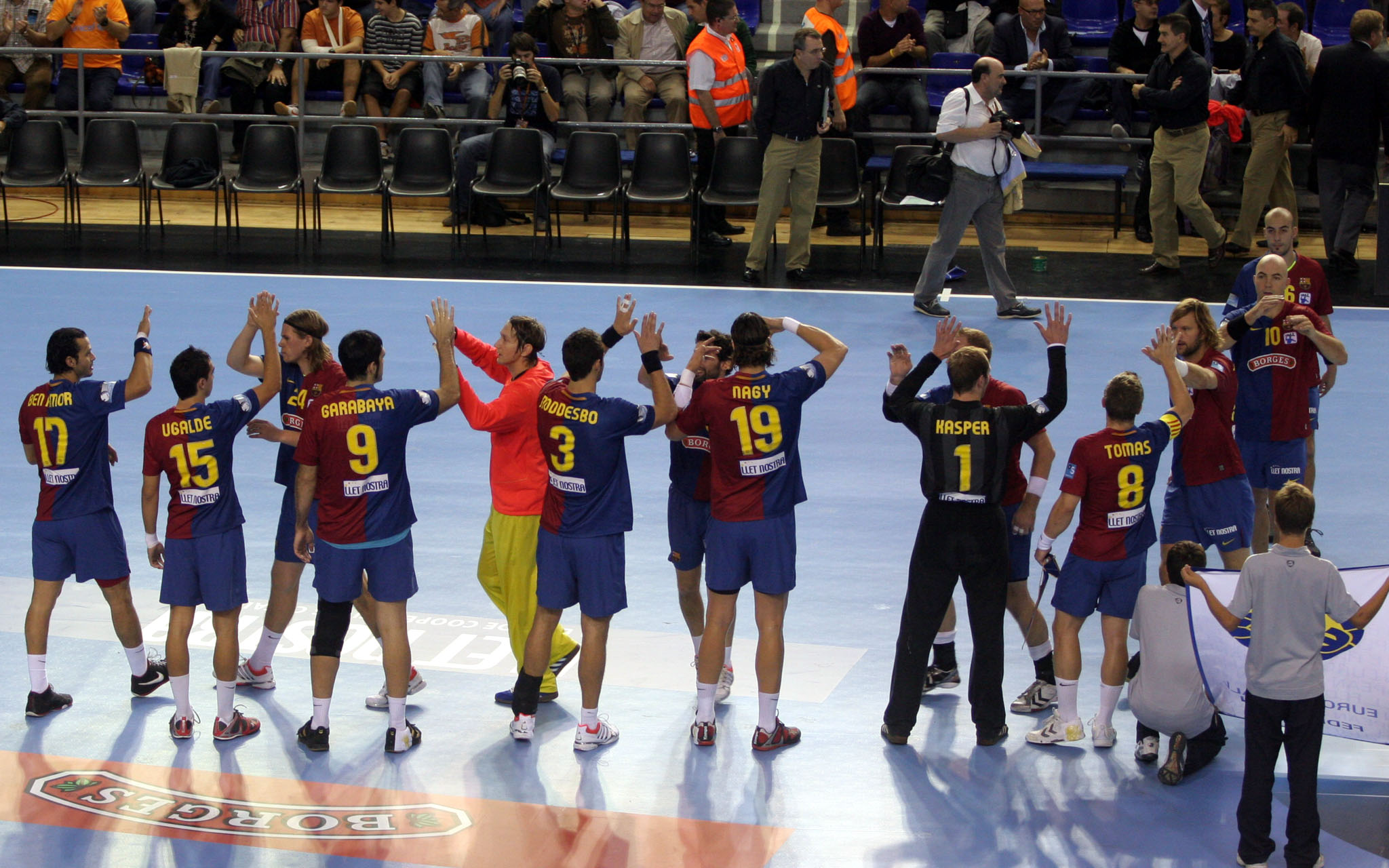 The Spanish Team from FC Barcelona on October 12th, 2008 in Barcelona (Palau Blaugrana) prior the Champions League game FC Barcelona Borges - H.C. Metalurg Skopje